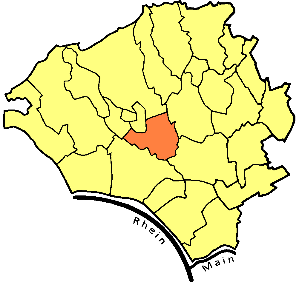 Map of Wiesbaden showing the location of Südost